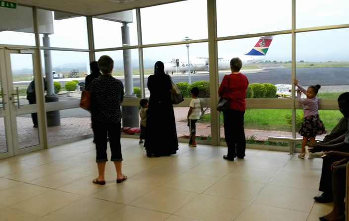 A view of an Airlink British Aerospace AVRO RJ85 taken from inside the Pietermaritzburg passenger terminal